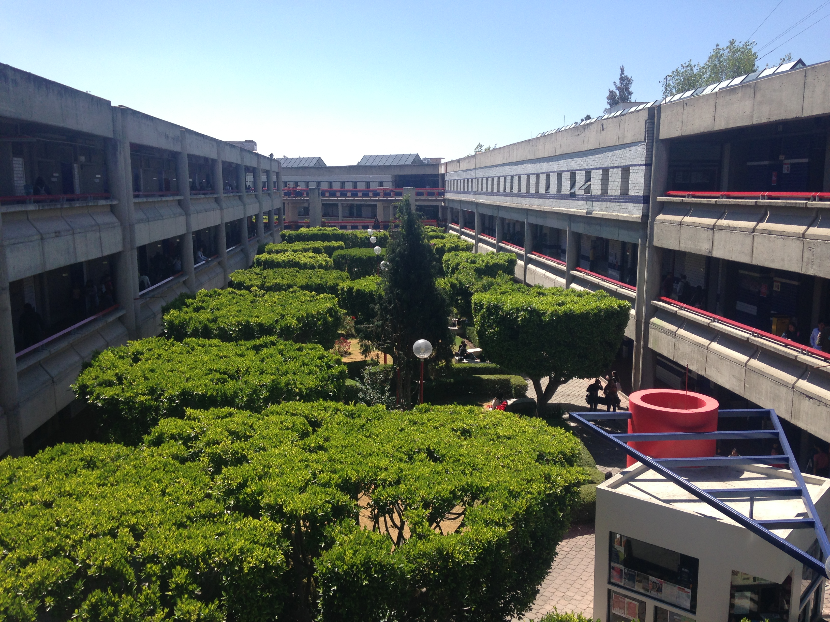 Universidad Iberoamericana Puebla campus